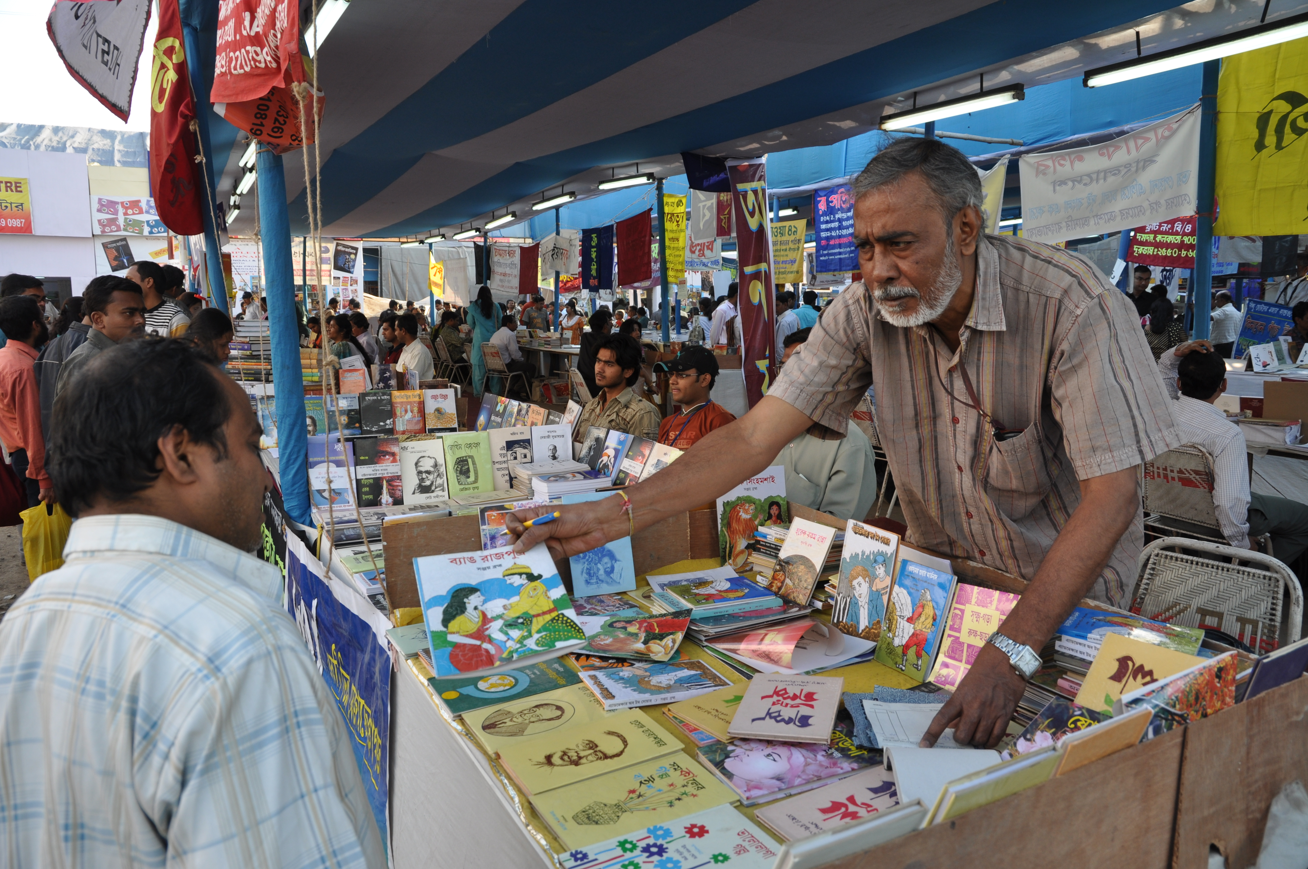 The Kolkata Book Fair (Old name: Calcutta Book Fair in English, and officially Kolkata Boimela or Kolkata Pustakmela in romanized Bengali, is a winter fair in Kolkata. It is a unique book fair in the sense of not being a trade fair - the book fair is primarily for the general public rather than whole-sale distributors. It is the world's largest non-trade book fair, Asia's largest book fair and the most attended book fair in the world. In 2010, the fair took place at ‘Milan Mela’ ground, opposite of ‘Science City’, Kolkata.